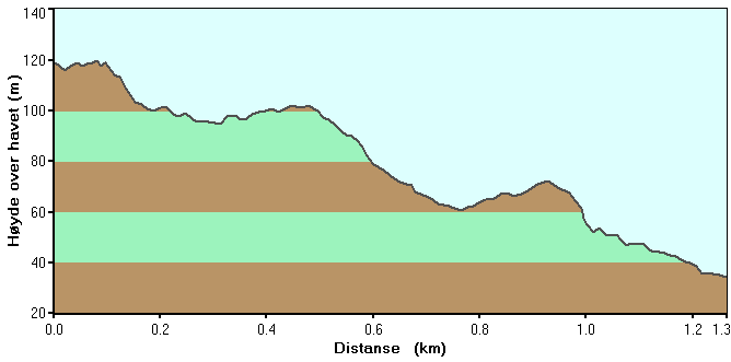 Profile "climbing" Vikerheia in Brønnøy, Nordland, Norway.